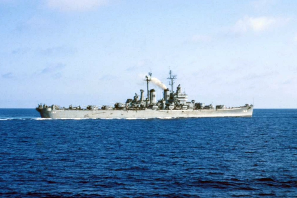 The U.S. Navy cruiser USS Worcester (CL-144) underway in 1953.